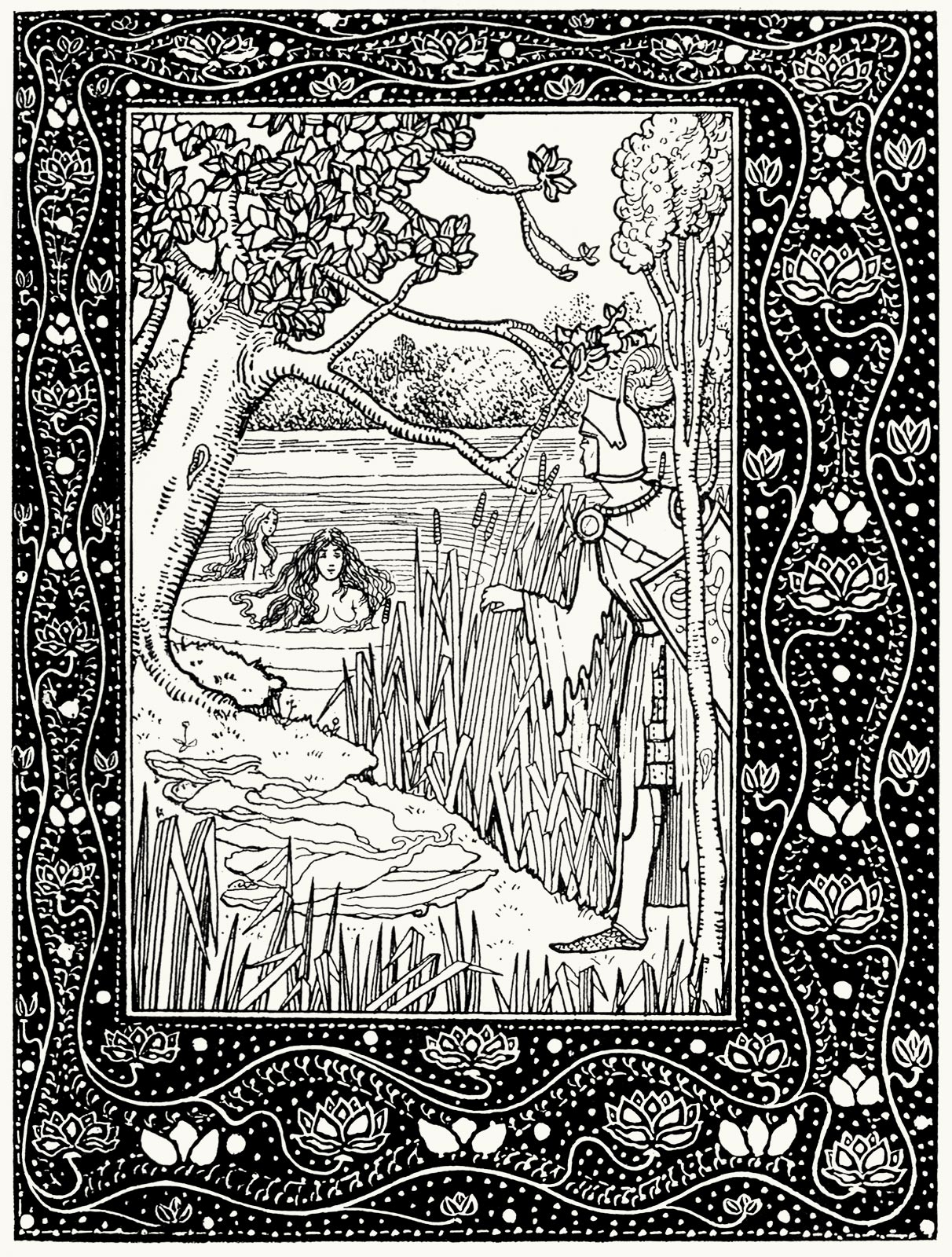 "Hagen and the Mermaids" from The fall of the Nibelungs, by Margaret Armour, London, 1897.